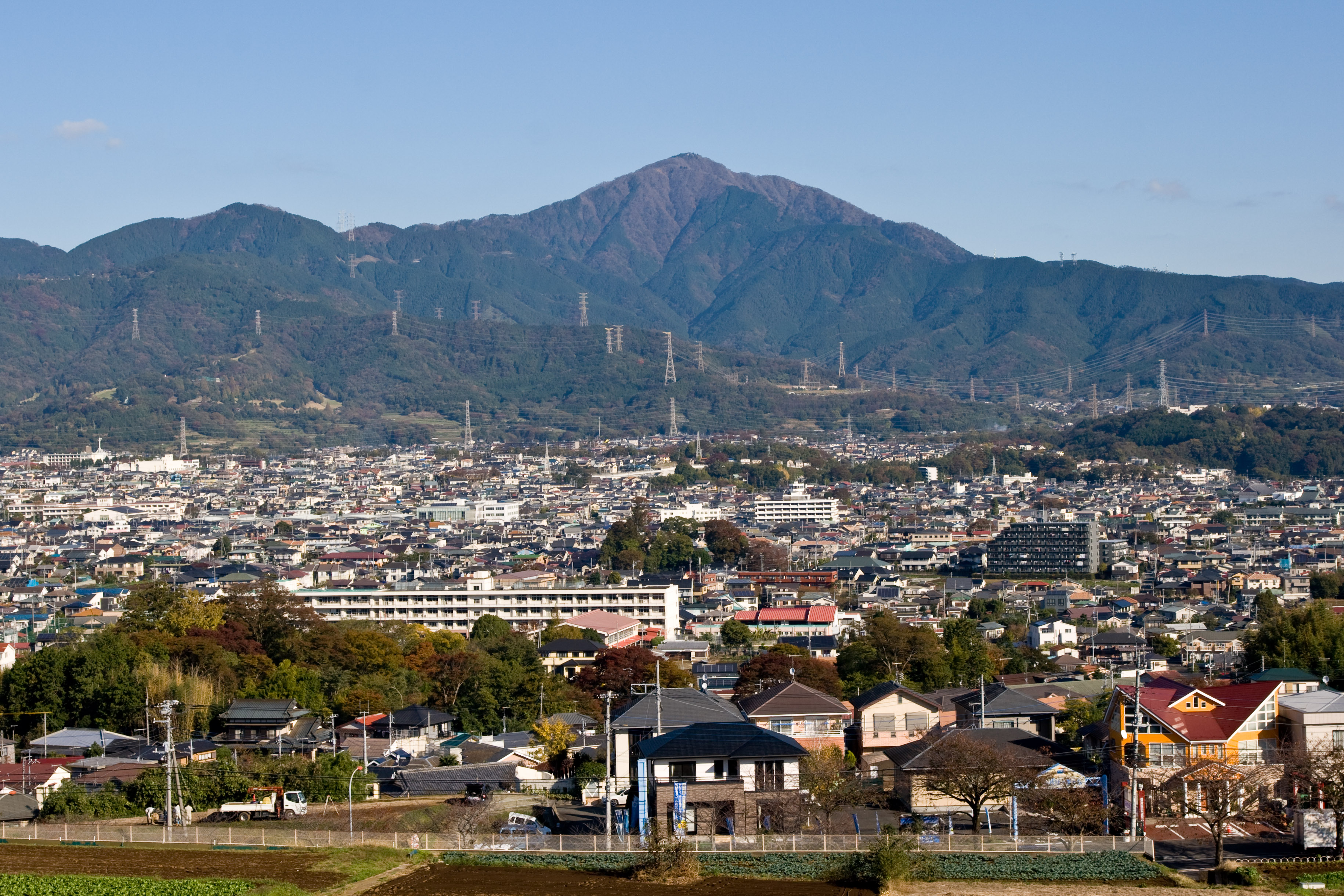 Mount Oyama and Hadano Basin (秦野盆地 はだのぼんち Hadano-bonchi) from Shibusawa Hill Range, Kanagawa Pref., Japan.